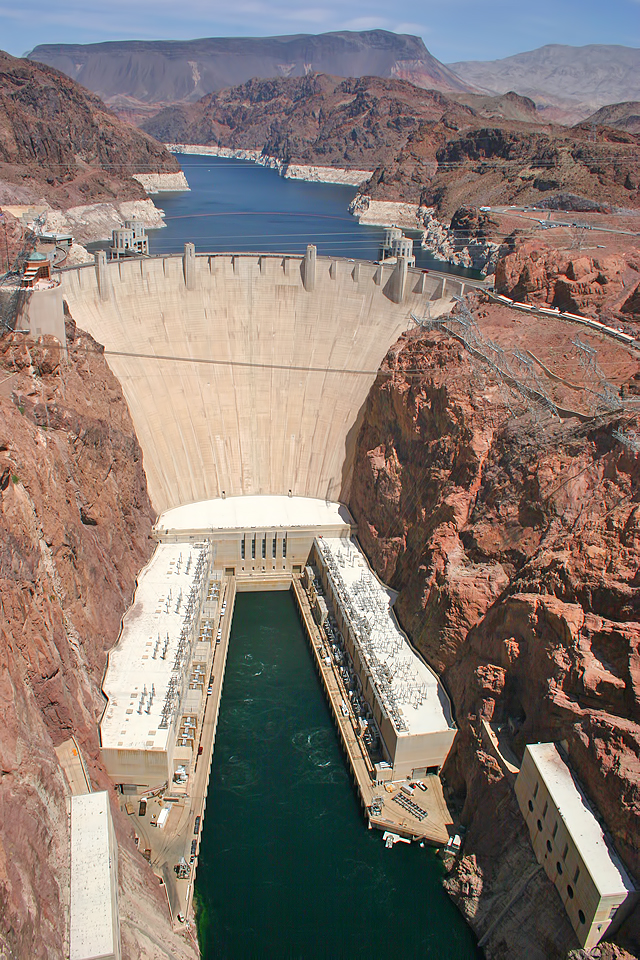 Hoover Dam seen from the Bypass Bridge; United States of America West Coast Trip 2012